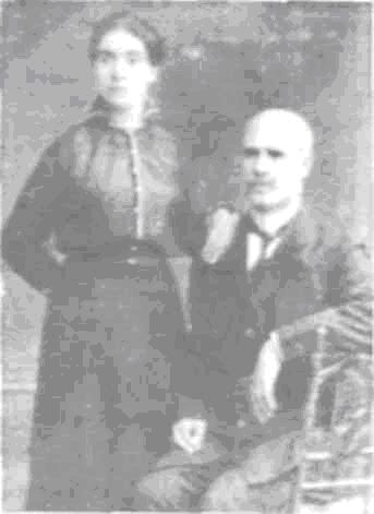 IMARO revolutionary/ies